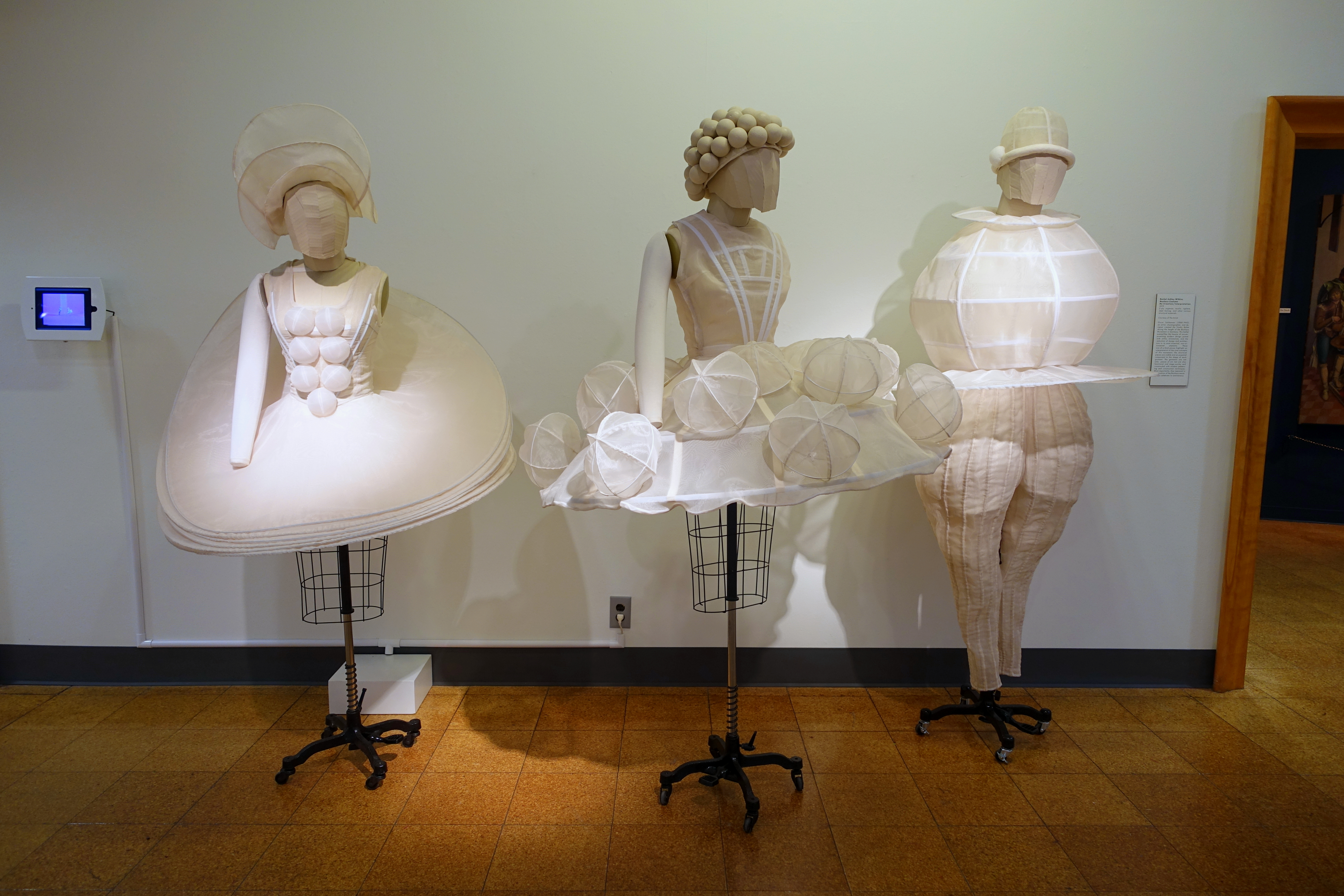 Triadic Ballet costumes, Oscar Schlemmer, 1922, recreated by Rachel Ashley Wilkins, organza, muslin, rigilene, steel - University of Arizona Museum of Art - University of Arizona - Tucson, Arizona, USA. As a utilitarian object (clothing), this exhibit is NOT subject to copyright laws. Instead it is subject to Industrial Design Rights; see Industrial Design Right for more information. If this object was ever covered by a design patent, that patent has expired, and thus this image is in the public domain.